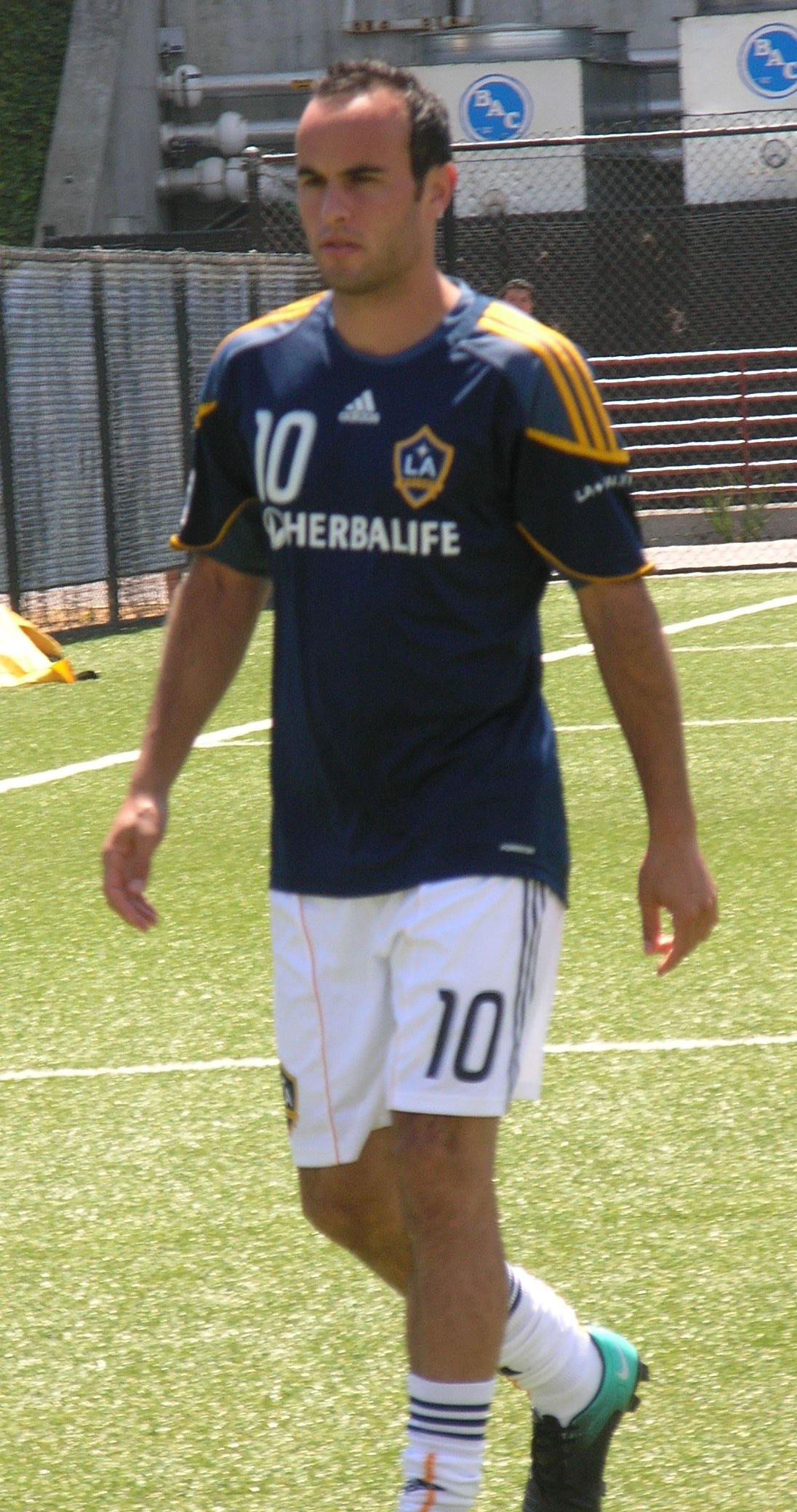 LA Galaxy player Landon Donovan coming out to warm up before an away game against the San Jose Earthquakes. The Earthquakes won 1-0.